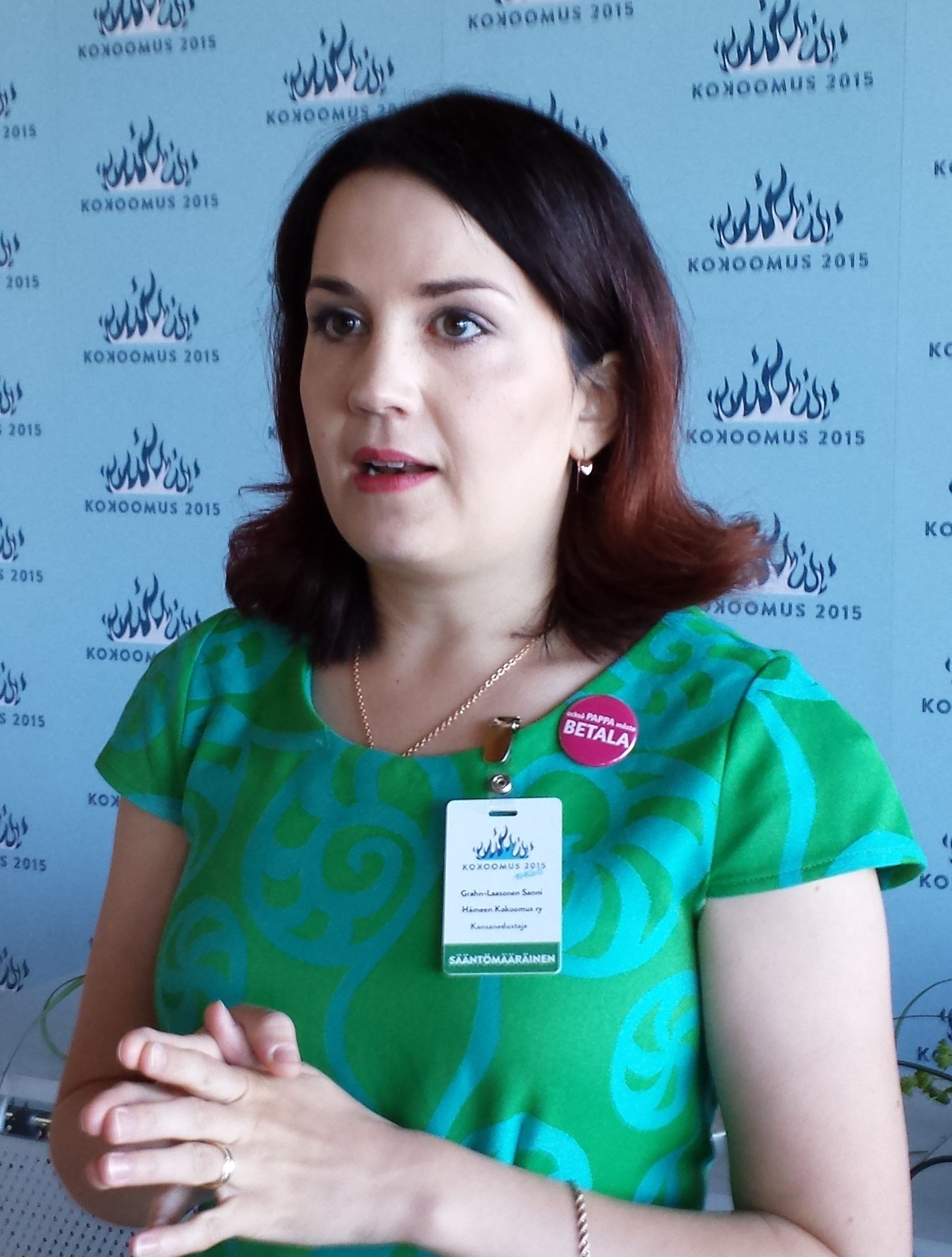 Sanni Grahn-Laasonen at Sibeliustalo in Lahti, Finland